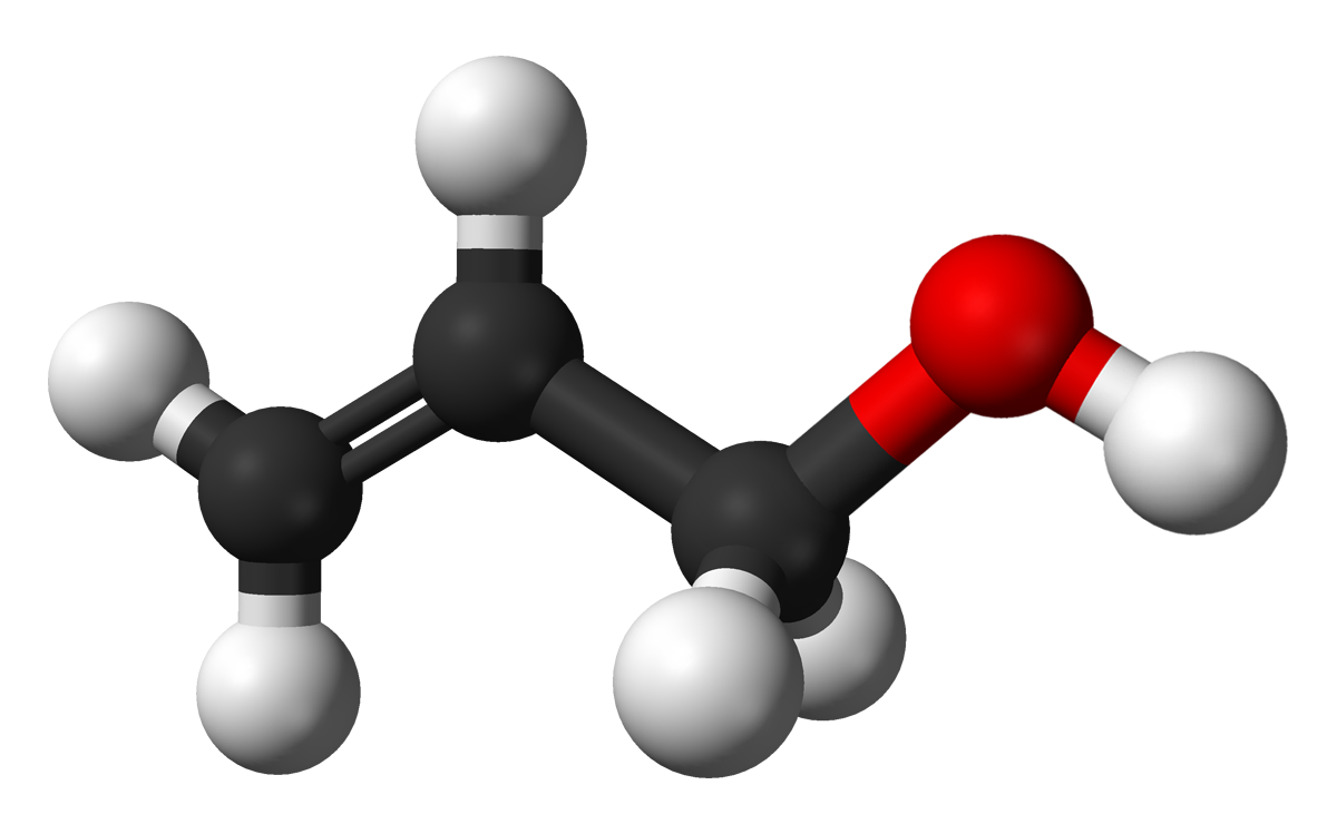 Ball and stick model of the allyl alcohol molecule.